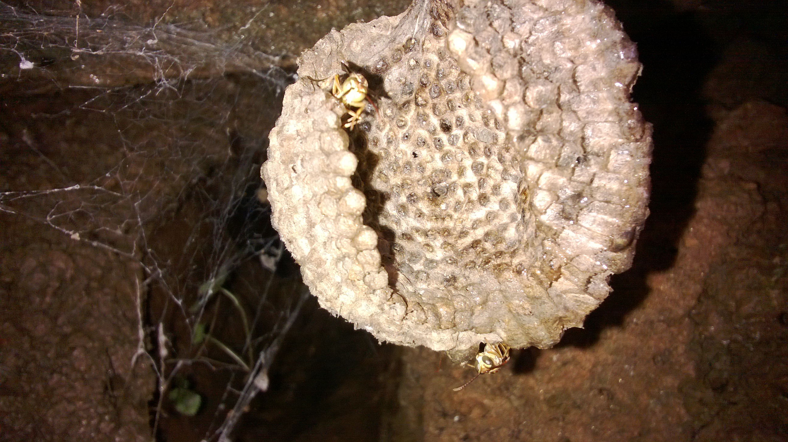 A species of wasp found in Panchkhal Valley.